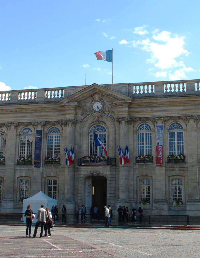 Town Hall - Beauvais (France)